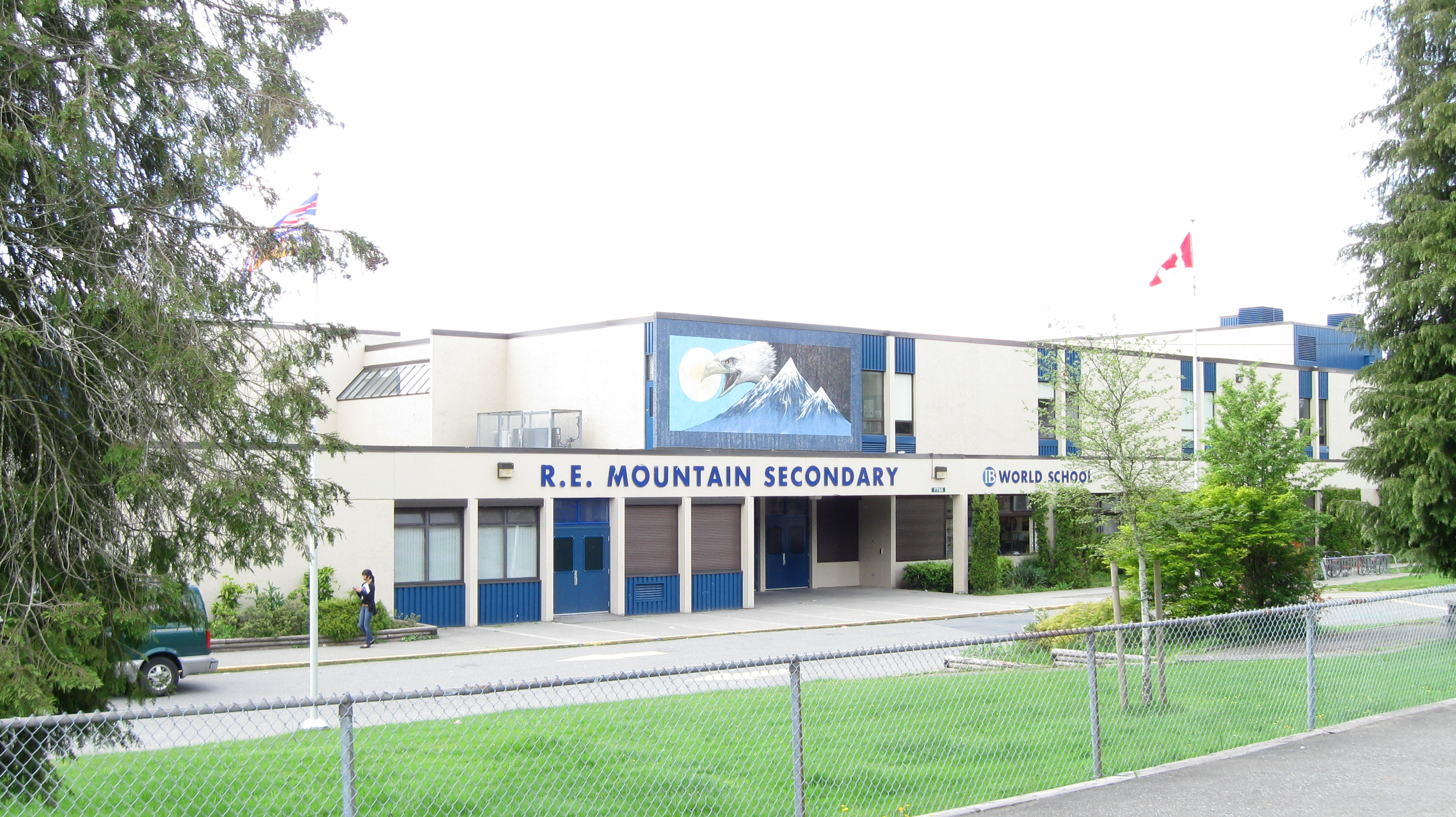 This is a west facing view of the front facade of R. E. Mountain Secondary school which is located at 7755 202A Street in Langley Township, British Columbia, Canada.